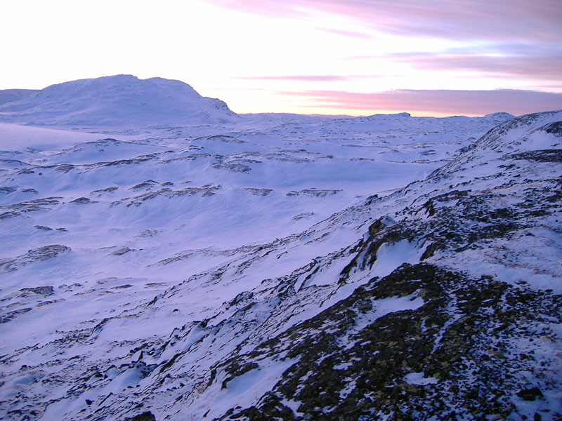 Hardangervidda, Norway, winter